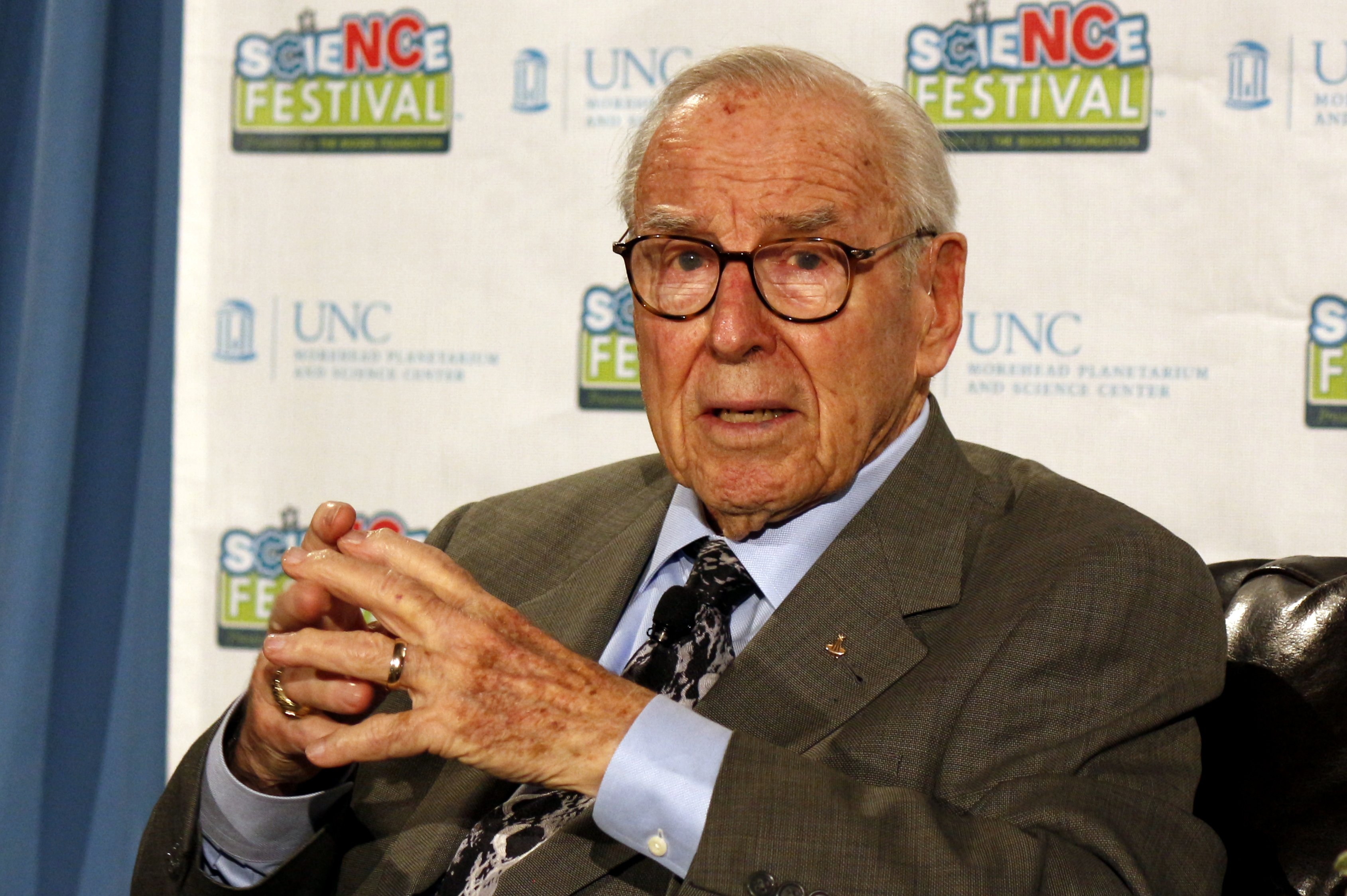 Jim Lovell at a press conference at the Morehead Planetarium in Chapel Hill, NC on April 6, 2017